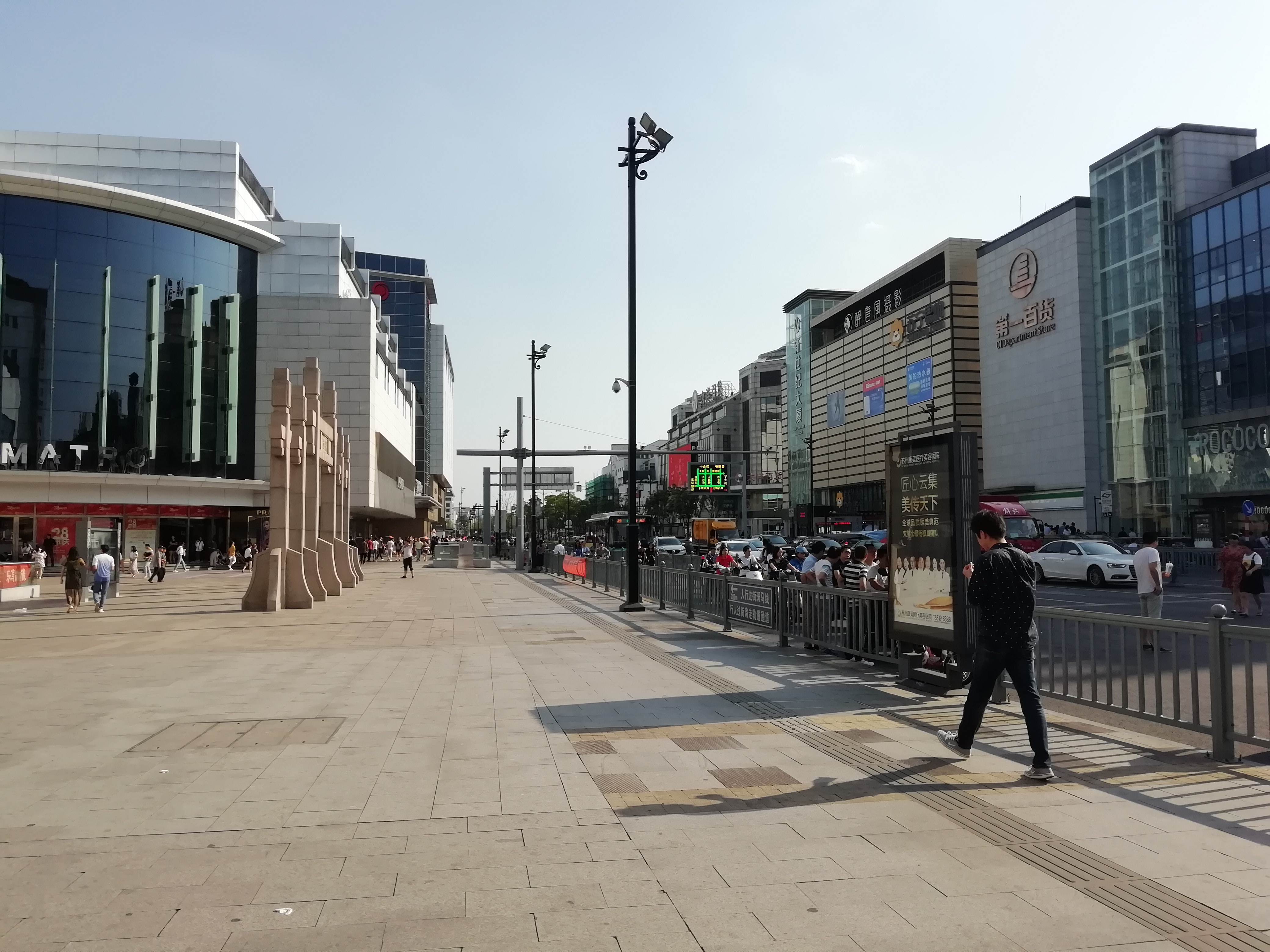 Intersection of Renmin Road and Guanqian Street in Suzhou, China 中文（中国大陆）: 人民路、观前街路口，附近是美罗百货（以前叫工业品商场）